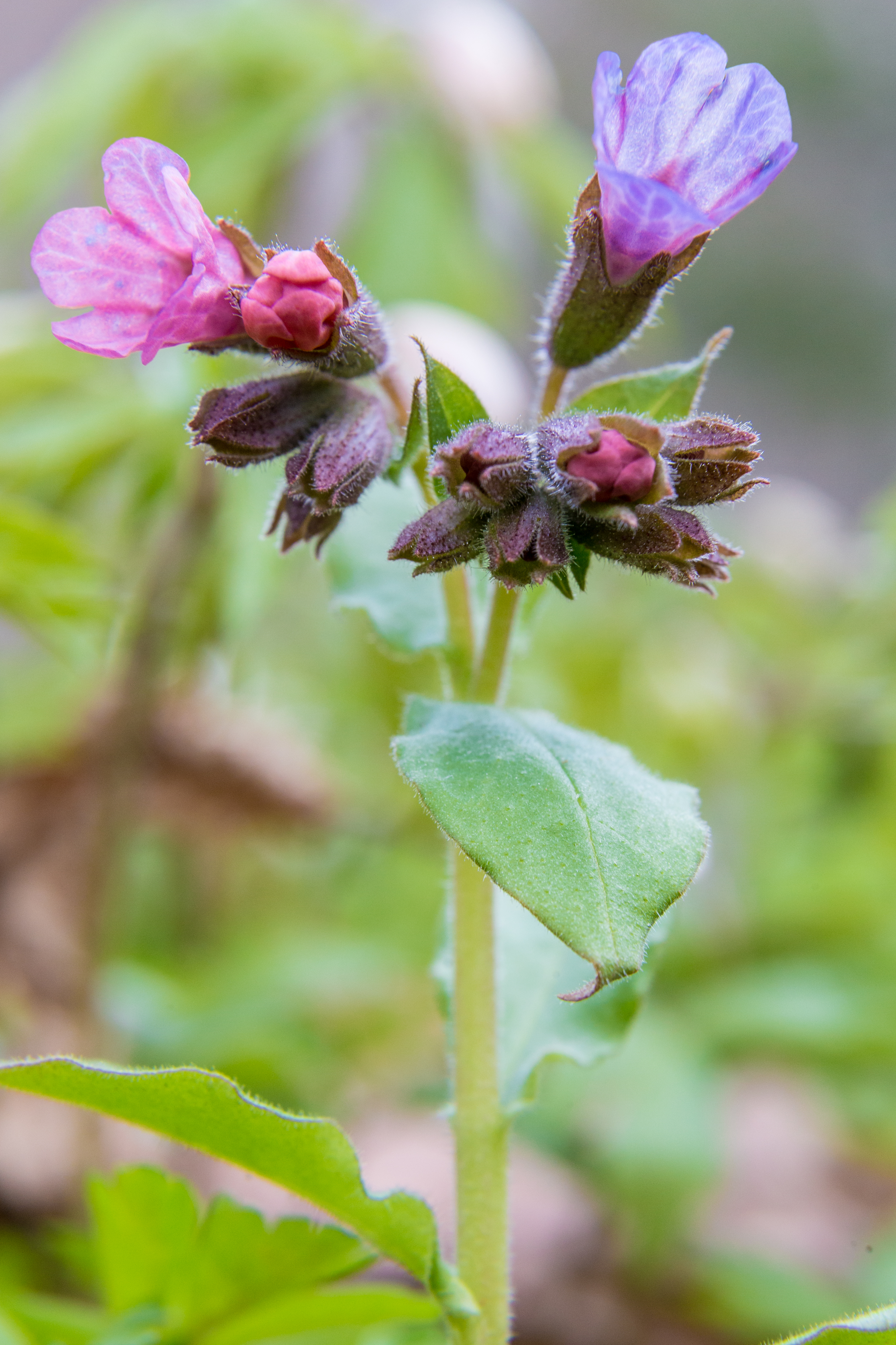 Unspotted lungwort (Pulmonaria obscura) in the nature reserve Hässlen, Hedemora Municipality, Dalarna County, Sweden.